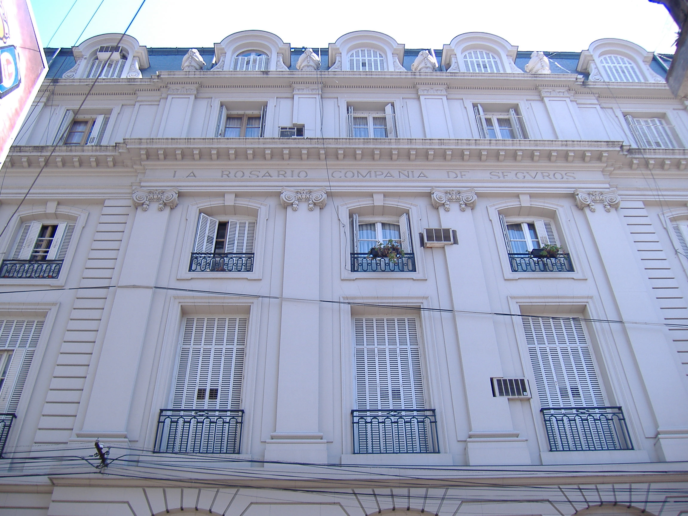 The building where Che Guevara lived during his first years, on 480 Entre Ríos St., Rosario, Argentina (his city of birth). This picture was taken by Pablo D. Flores on 7 March 2006.